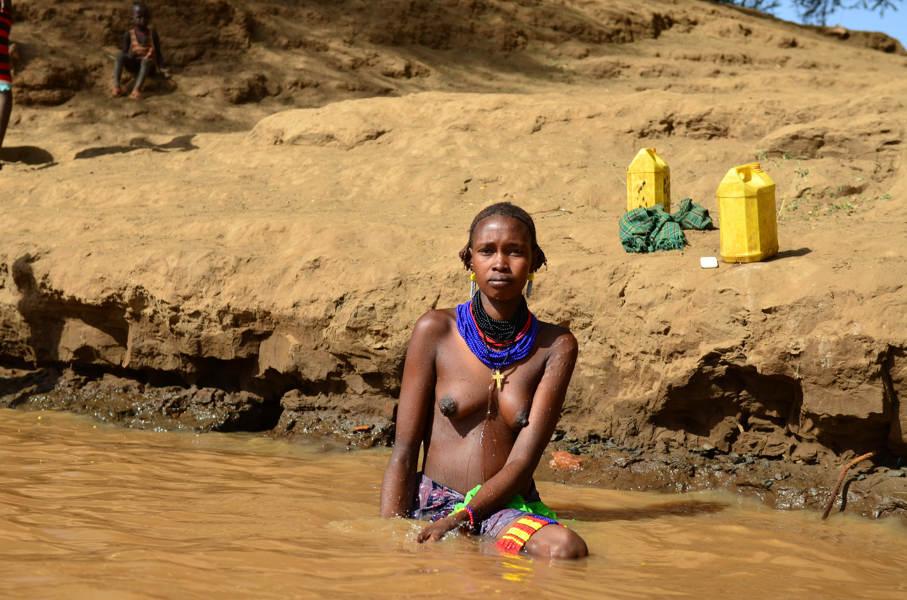 The woman washes in the river of OMO, one of the dirtiest rivers of Africa, the Woman to the tribe of Omorat, Ethiopia, national park of OMO